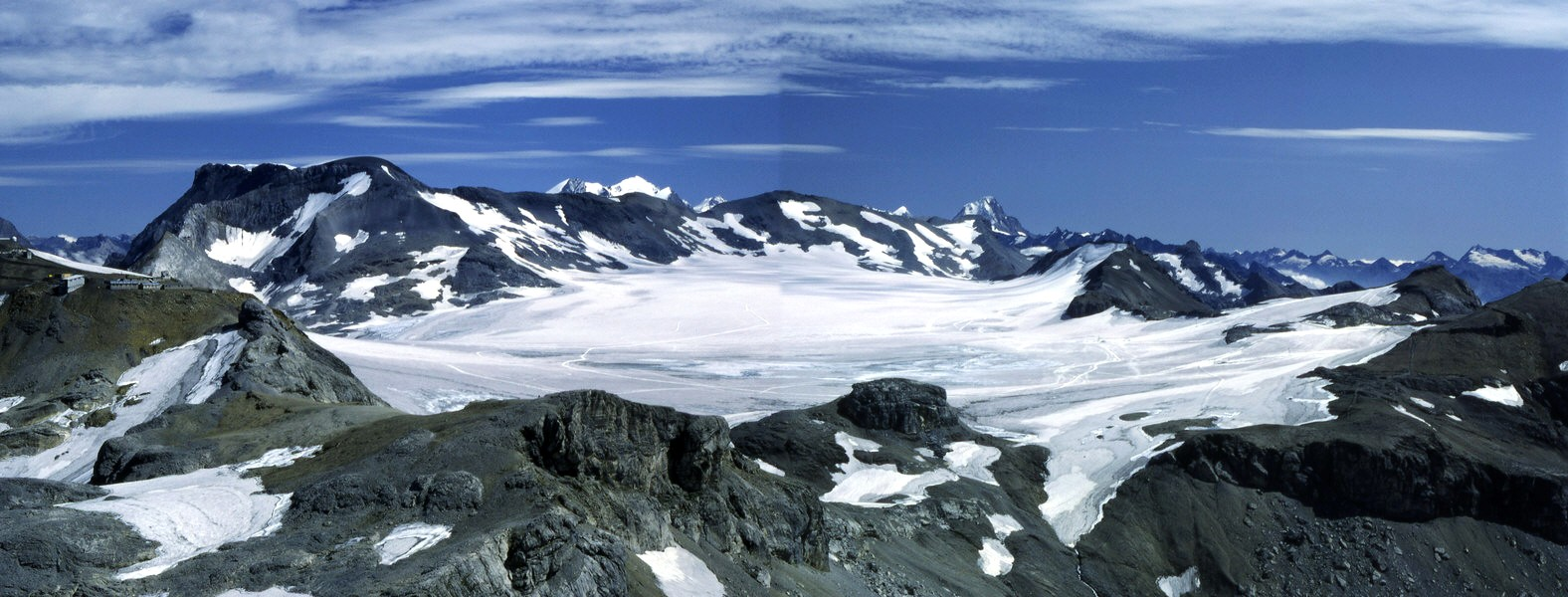 Wildstrubel from west and Plaine Morte glacier